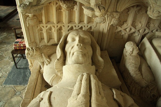 Sir Richard Croft. Tomb effigy of Sir Richard Croft 1364706 SIR RICHARD CROFT, KNT Sheriff of Herefordshire 1471-72-77-86 Fought at Mortimer's Cross 1461, Tewkesbury 1471 MP for Herefordshire 1477 Governor of Ludlow Castle Created Knight-Banneret after the Battle of Stoke 1487 Died July 29 1509